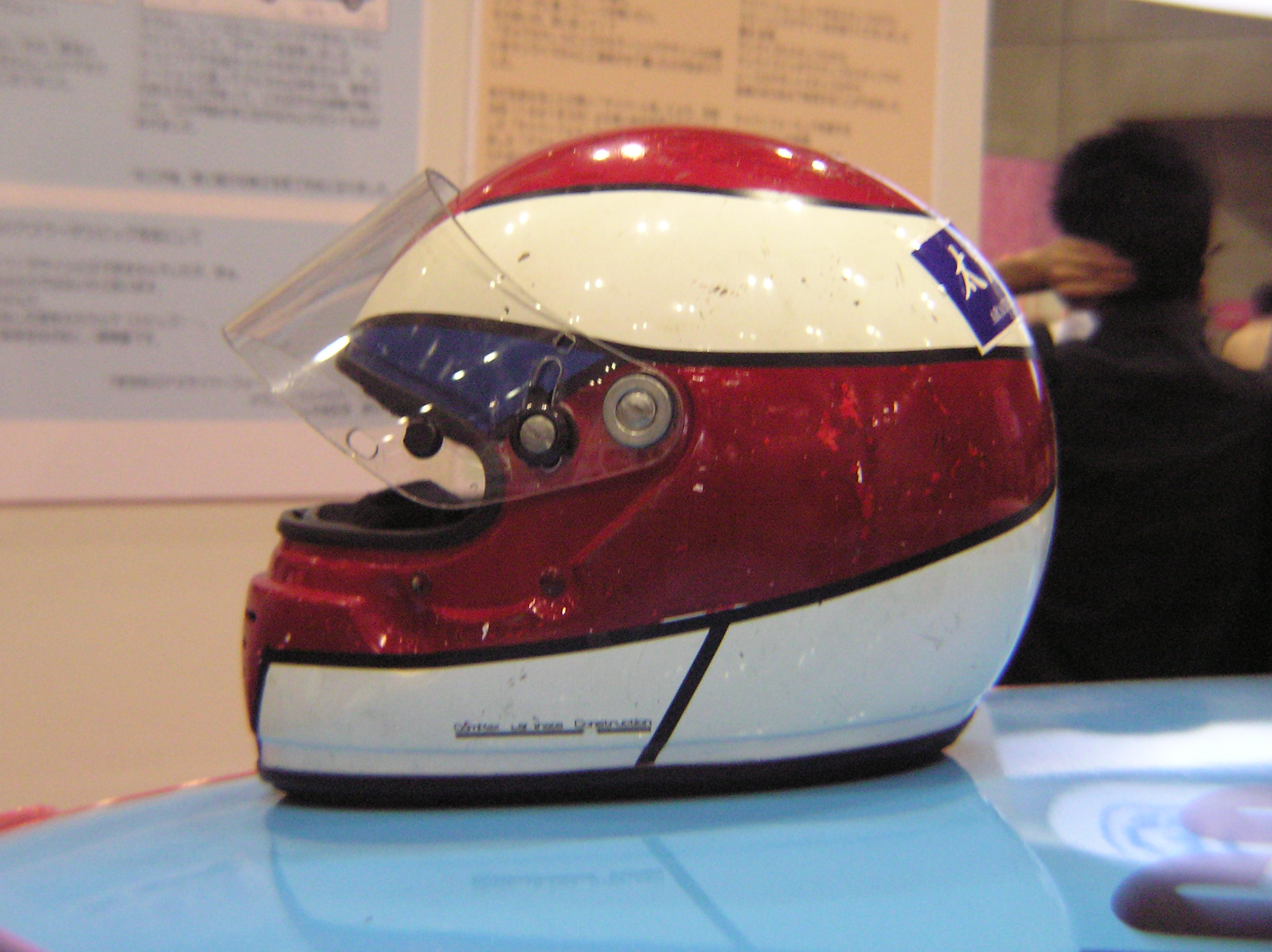 The replica helmet of Kazami Hayato in Cyber Formula. Made by Getwin.